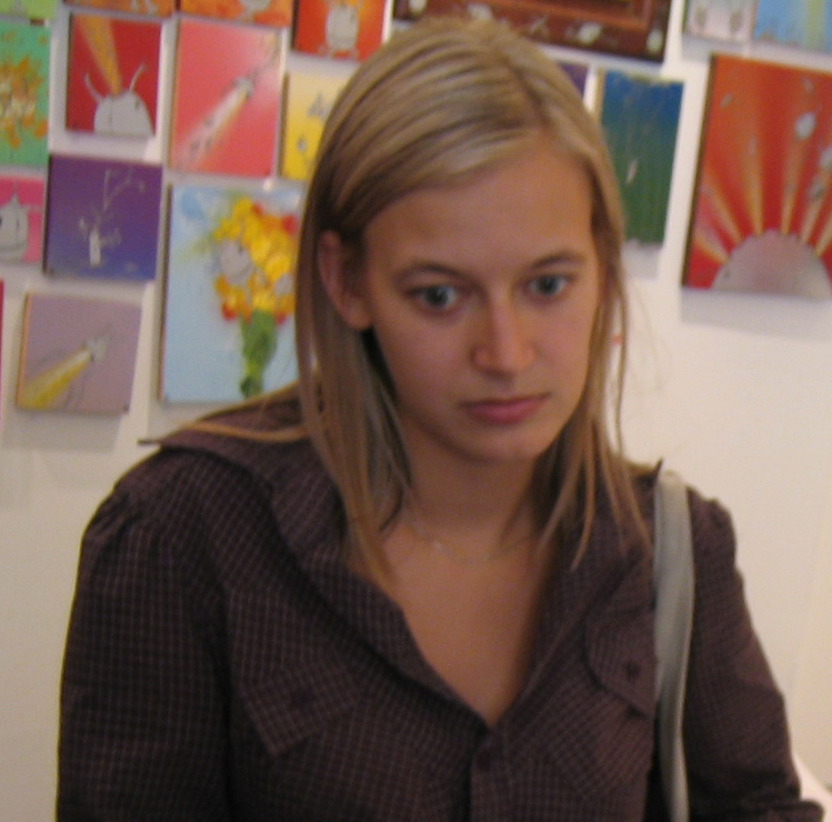 Lauren Cornell in 2006